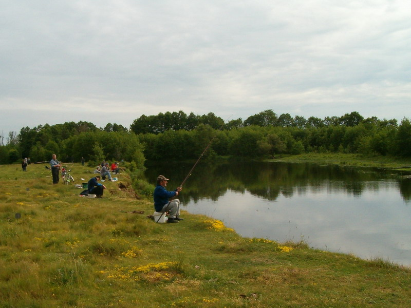 removed from Polish Wikipedia, author - User:Witek Sob